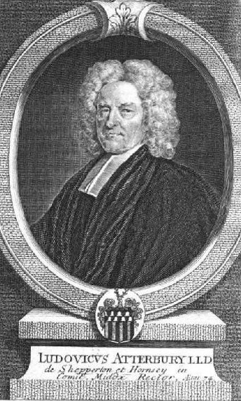 Portrait of Lewis Atterbury (1656–1731), English churchman.